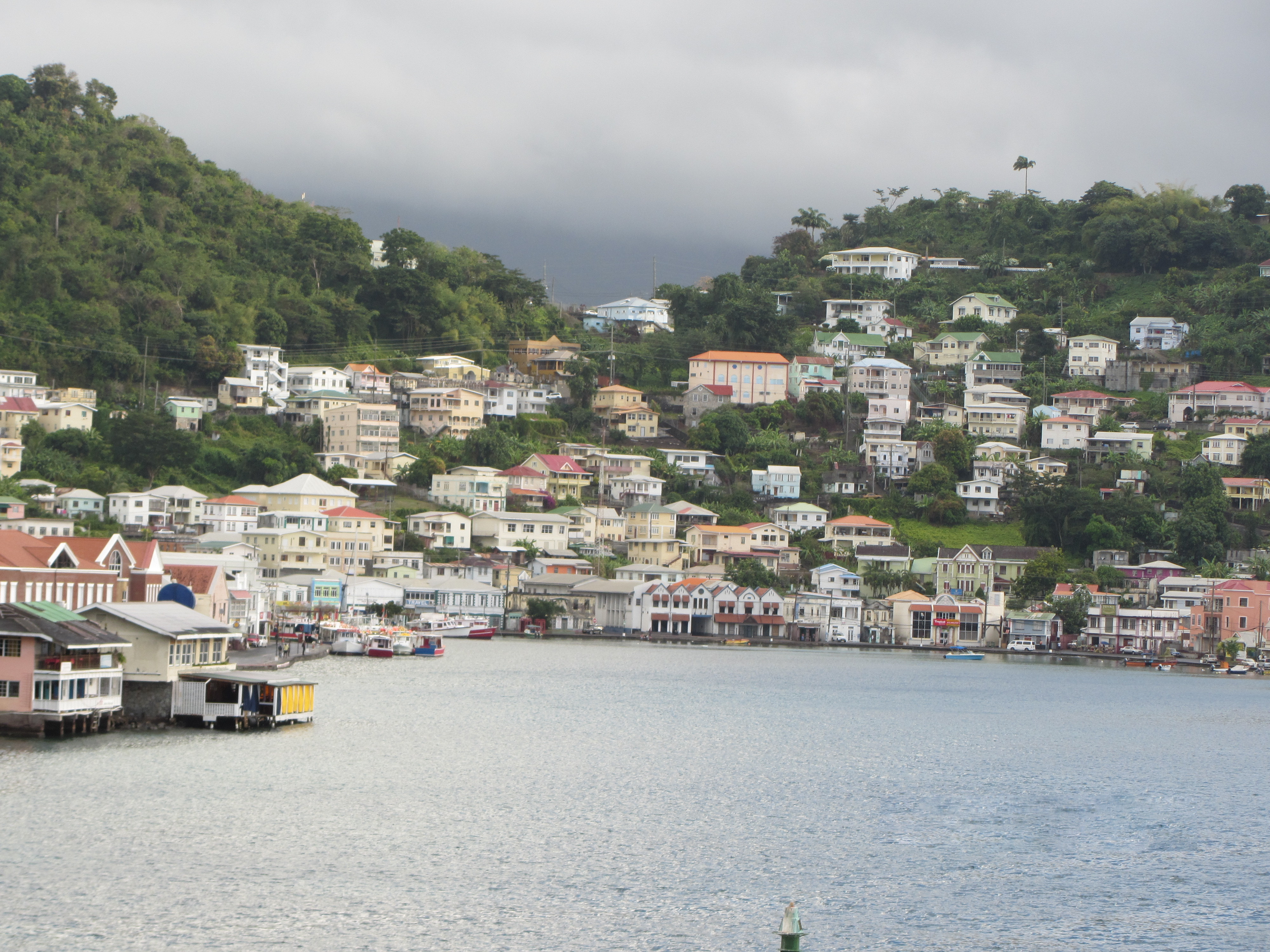 The Carenage of St. George's in Grenada